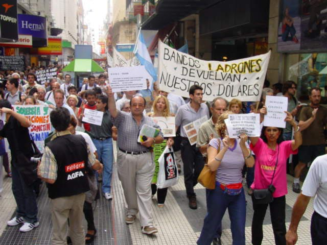 Cacerolazo. Demonstration. March against banks, protesting about the "Corralito"